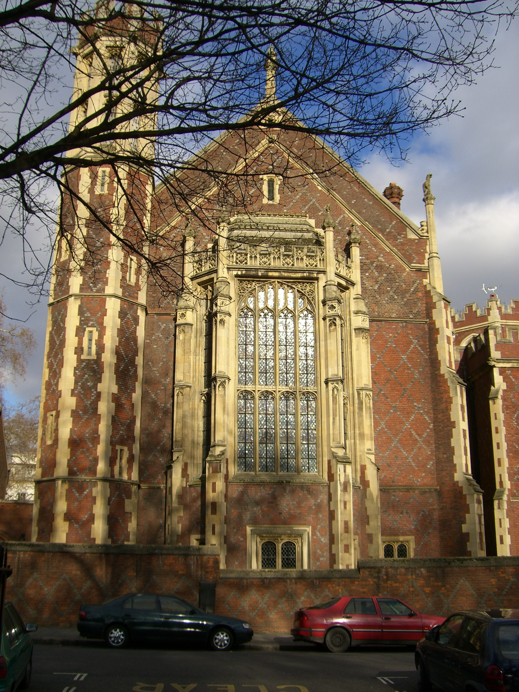 Lincoln's Inn Photo taken by User:Edward on 19 March 2006 with a Casio EX-S600.